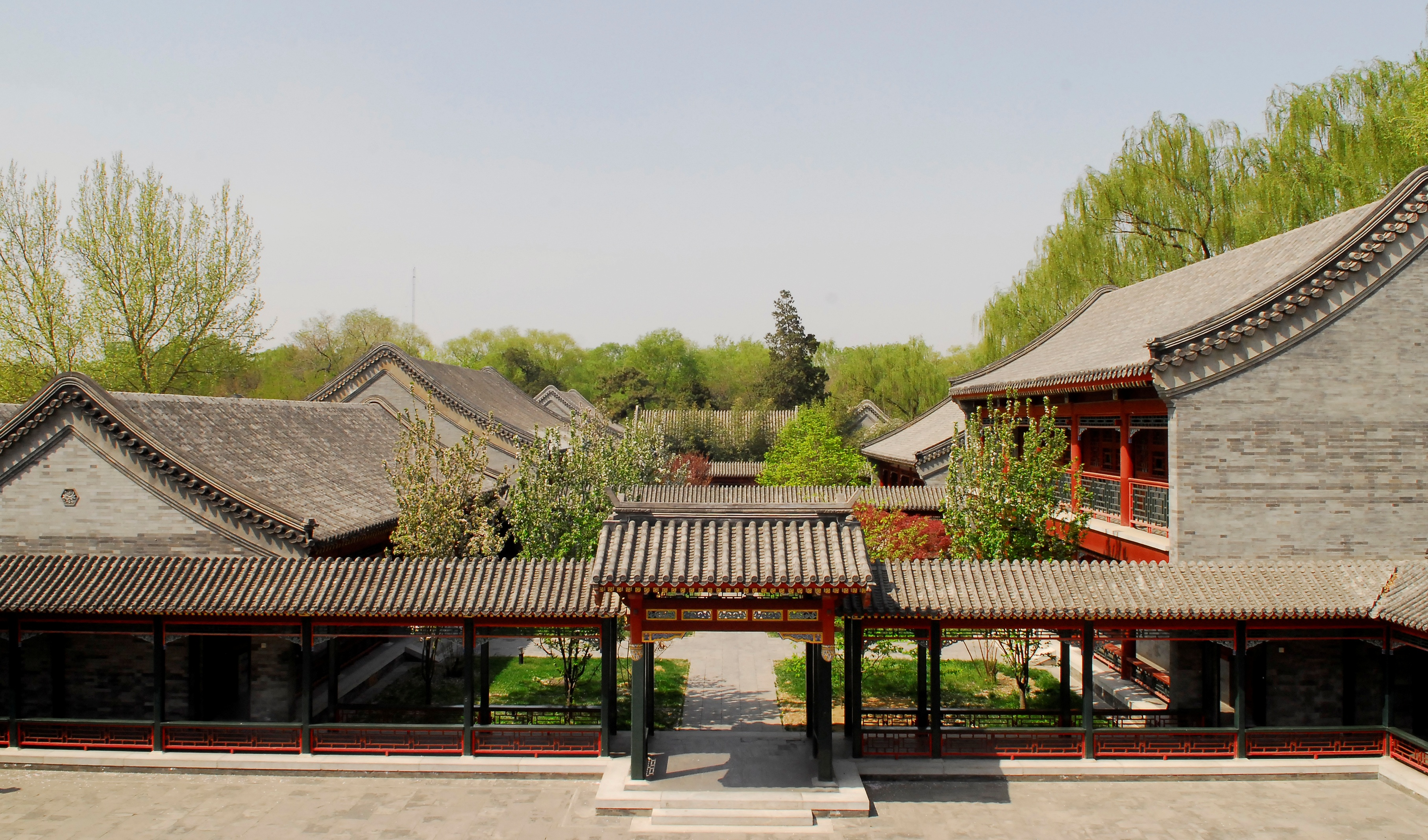 Campus of the BiMBA at the Langrun Garden inside the Peking University, Beijing.